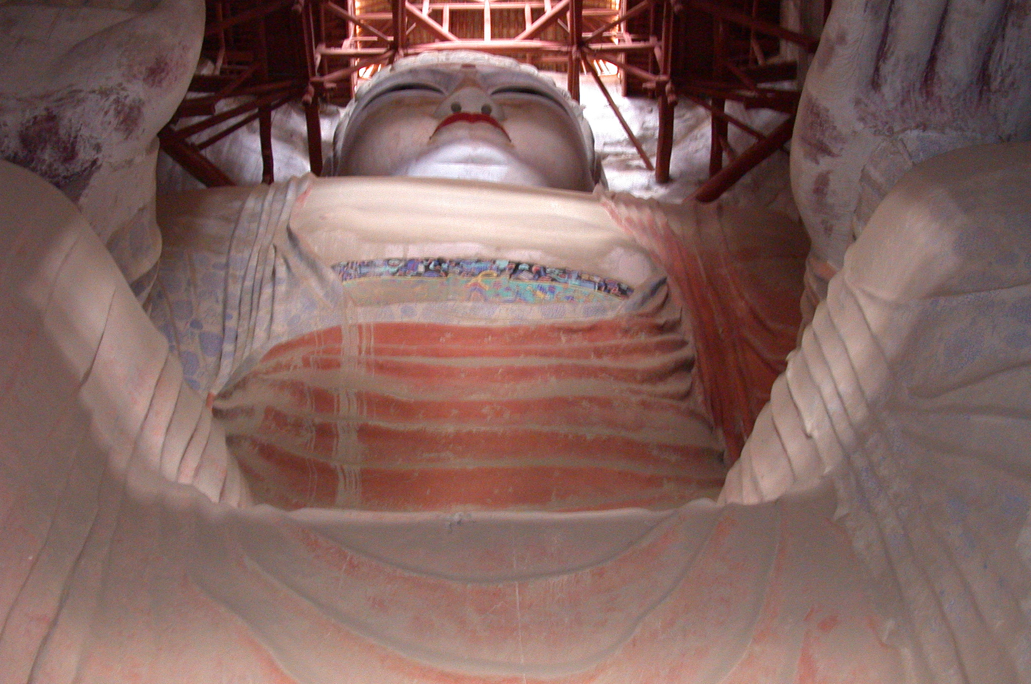 Great Buddha of Mogao Caves, largest Buddha figure at 35.5 m tall, Cave 96. Constructed under the edicts of Empress Wu Zetian in 695 CE.